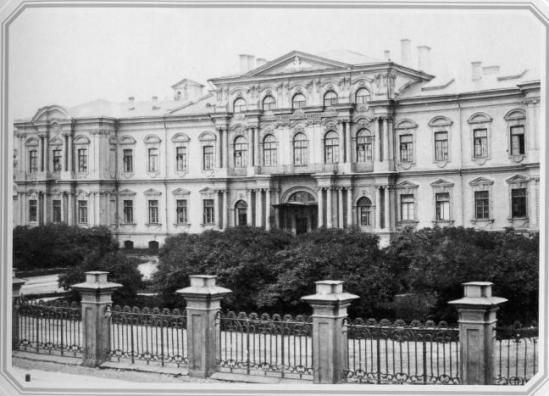 Imperial Corps of Pages Building (former Vorontsov Palace), St. Petersburg, ca. 1860s.